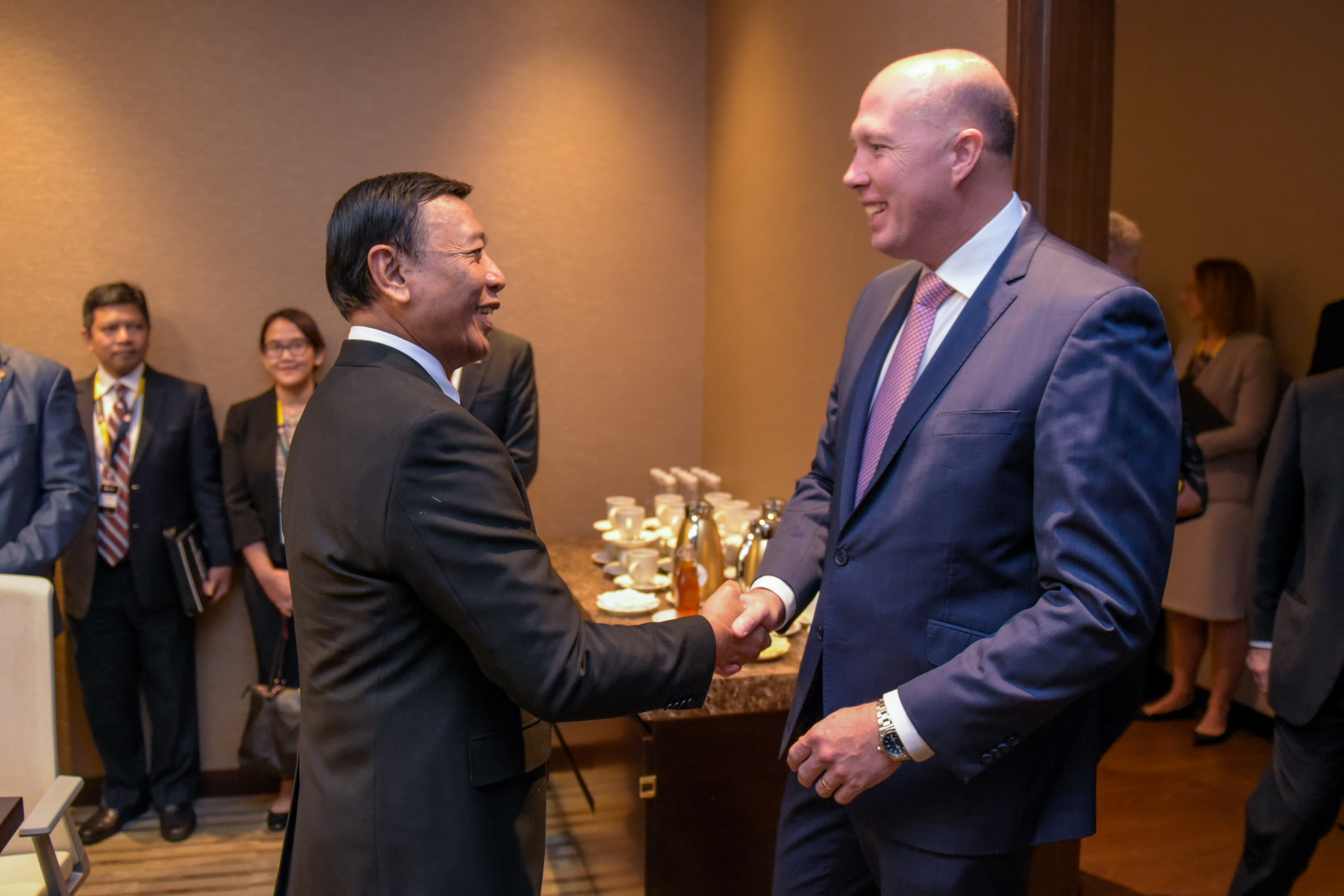 Peter Dutton (Australian Minister for Home Affairs) and Wiranto (Indonesian Coordinating Minister for Political, Legal and Security Affairs) at the 2018 Sub-Regional Meeting on Counter Terrorism